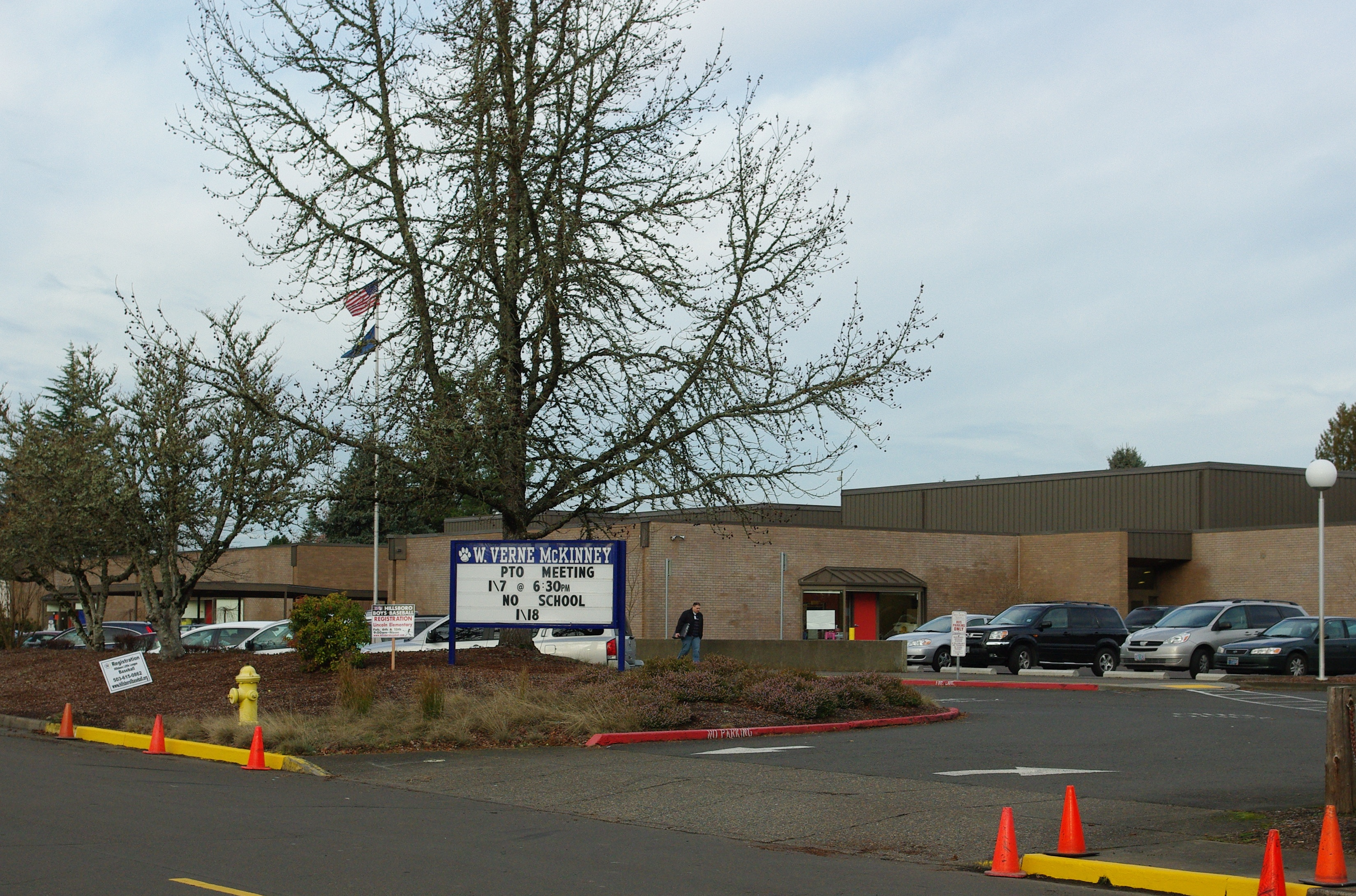 McKinney Elementary School in Hillsboro, Oregon, part of the Hillsboro School District.